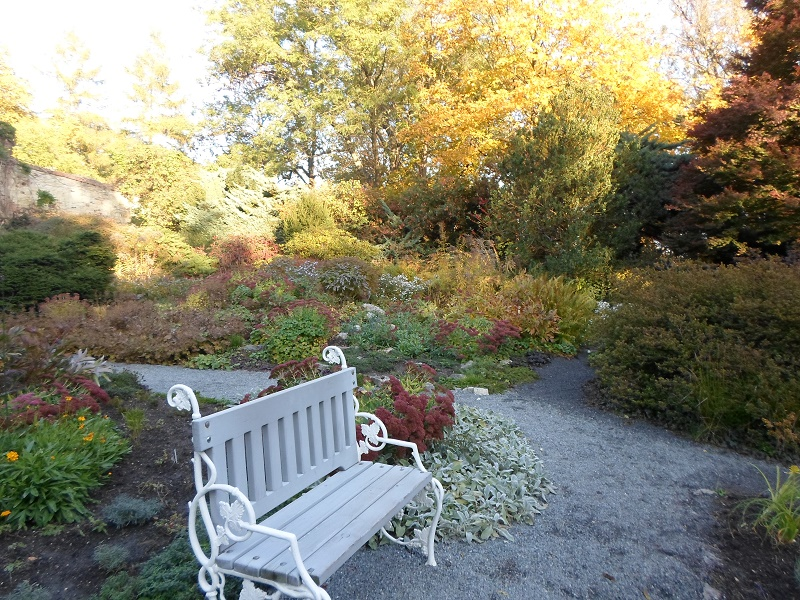 Flower garden in Petrin park